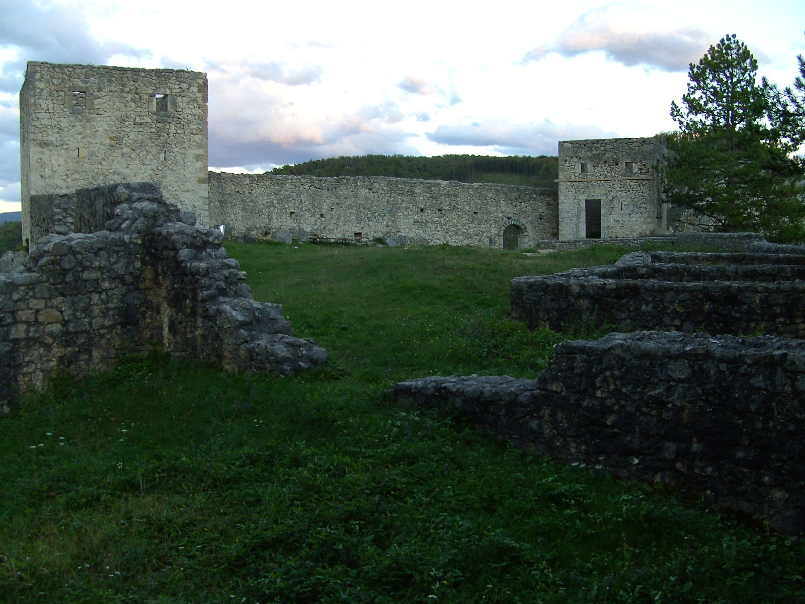 A castle from the 14th century in the town of Ključ in Bosnia and Herzegovina